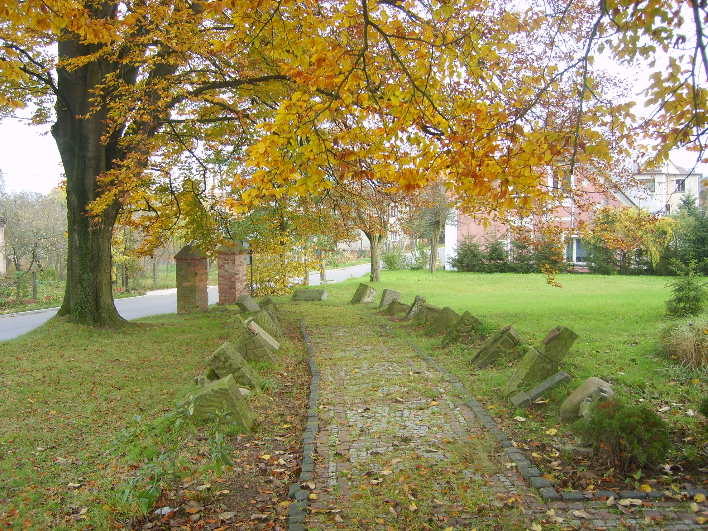 Lapidarium with remains of an old German cemetery in Motaniec, Poland.